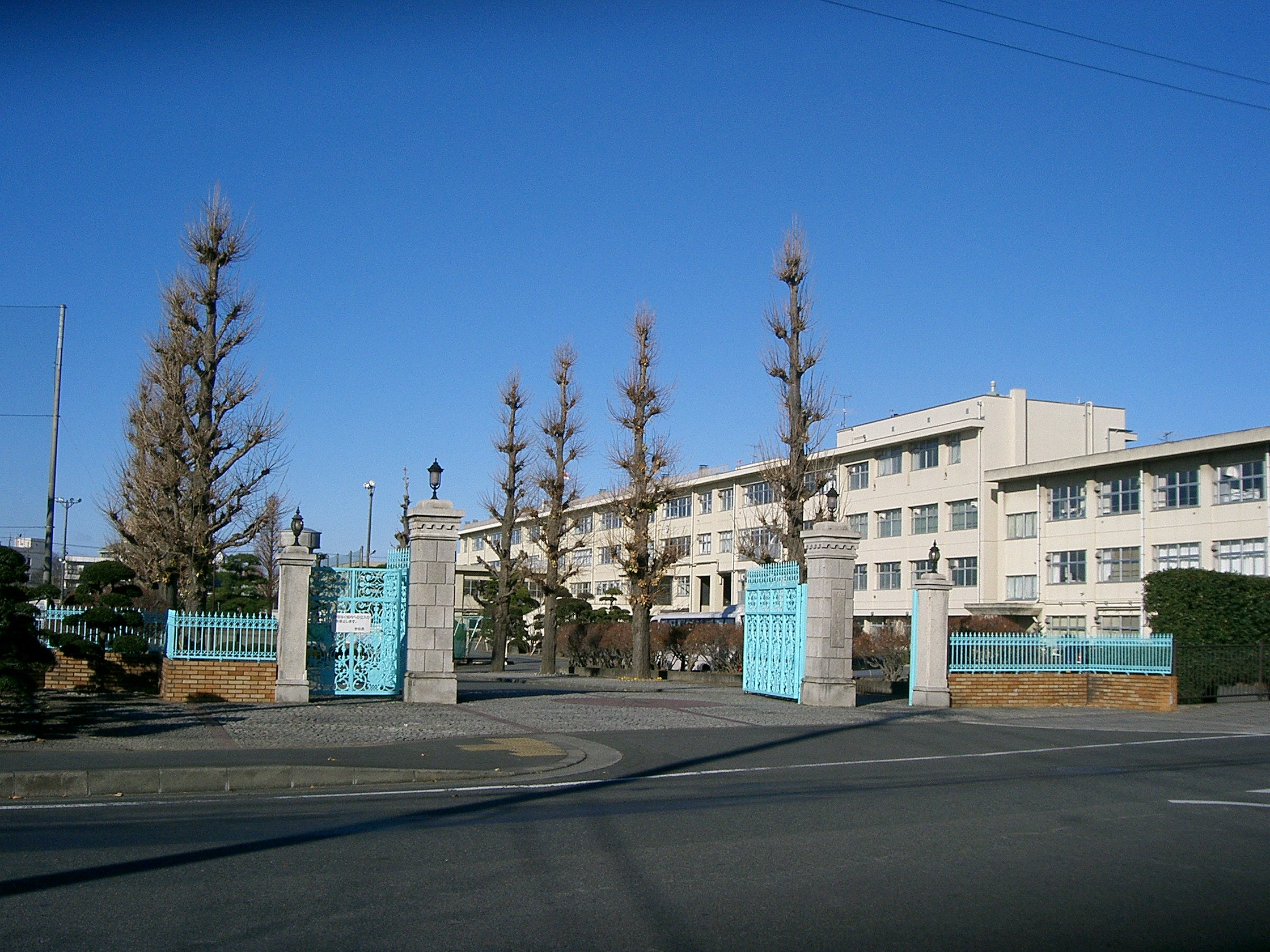 Kiryu High School of Gunma prefecture, Japan